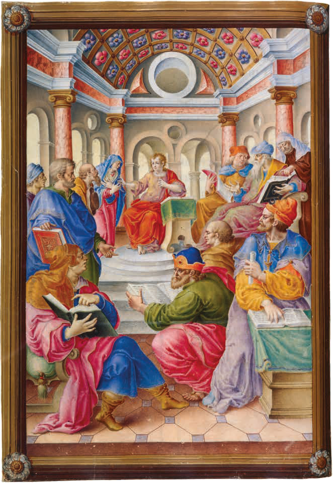 Jesus among the Doctors, illumination by unknown author dated to the second quarter of the 17th century, of the Missal of the Academy of Sciences, Lisbon, Portugal.